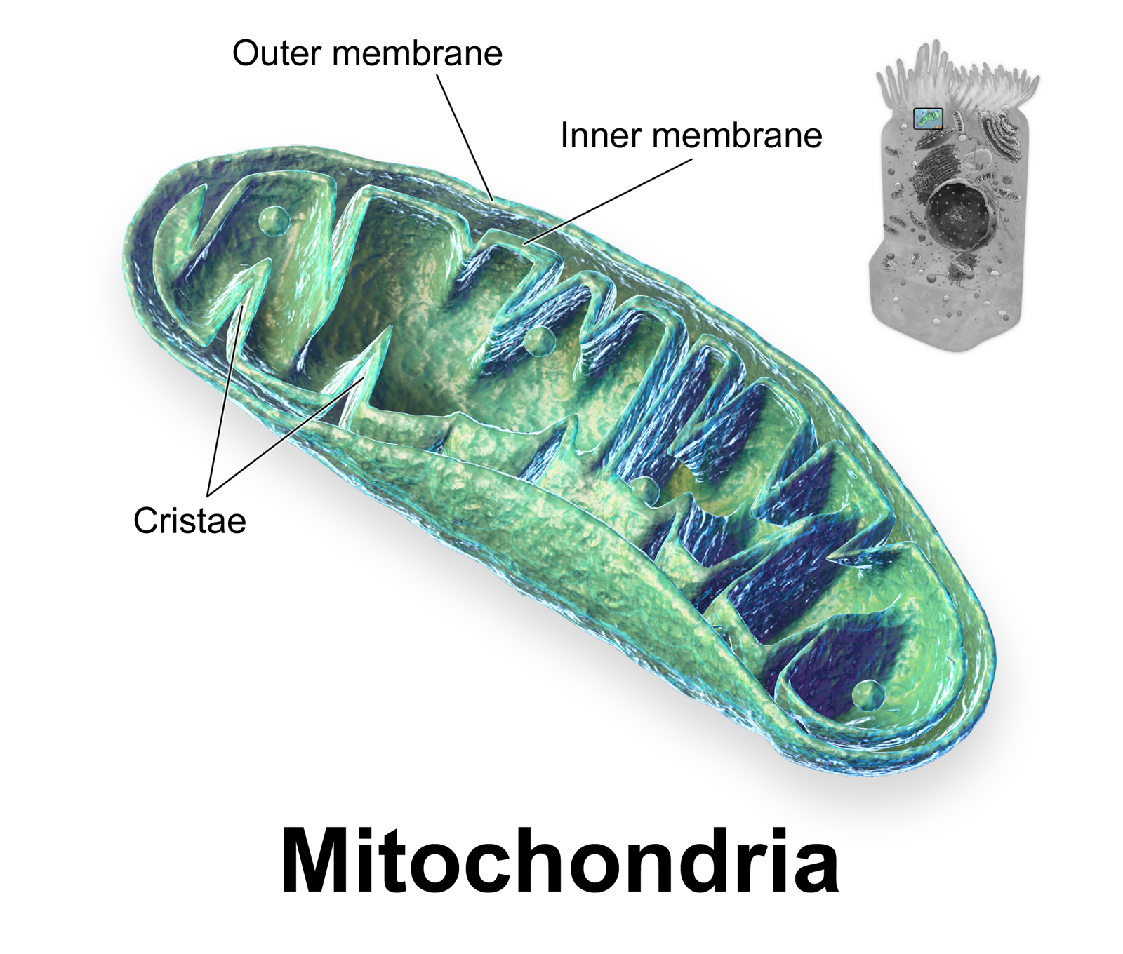 Mitochondria. See a full animation of this medical topic.